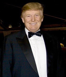 Donald Trump in February 2009